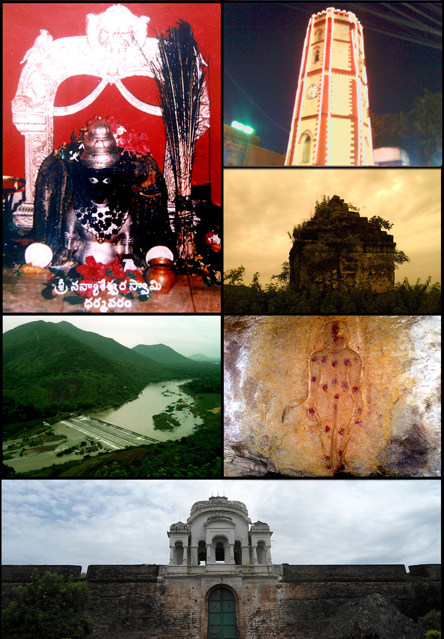 Montage of Vizianagaram District with Images from wikimedia commons